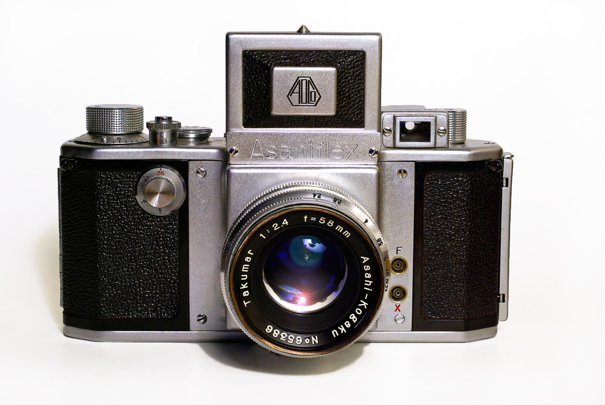 A photo of the Asahiflex IIA camera. Camera by the Asahi Optical Company of Japan. Approximate year of manufacture: 1955. An early example of a single lens reflex (SLR) 35mm camera. This camera was the first Japanese camera to feature the instant return reflex mirror.